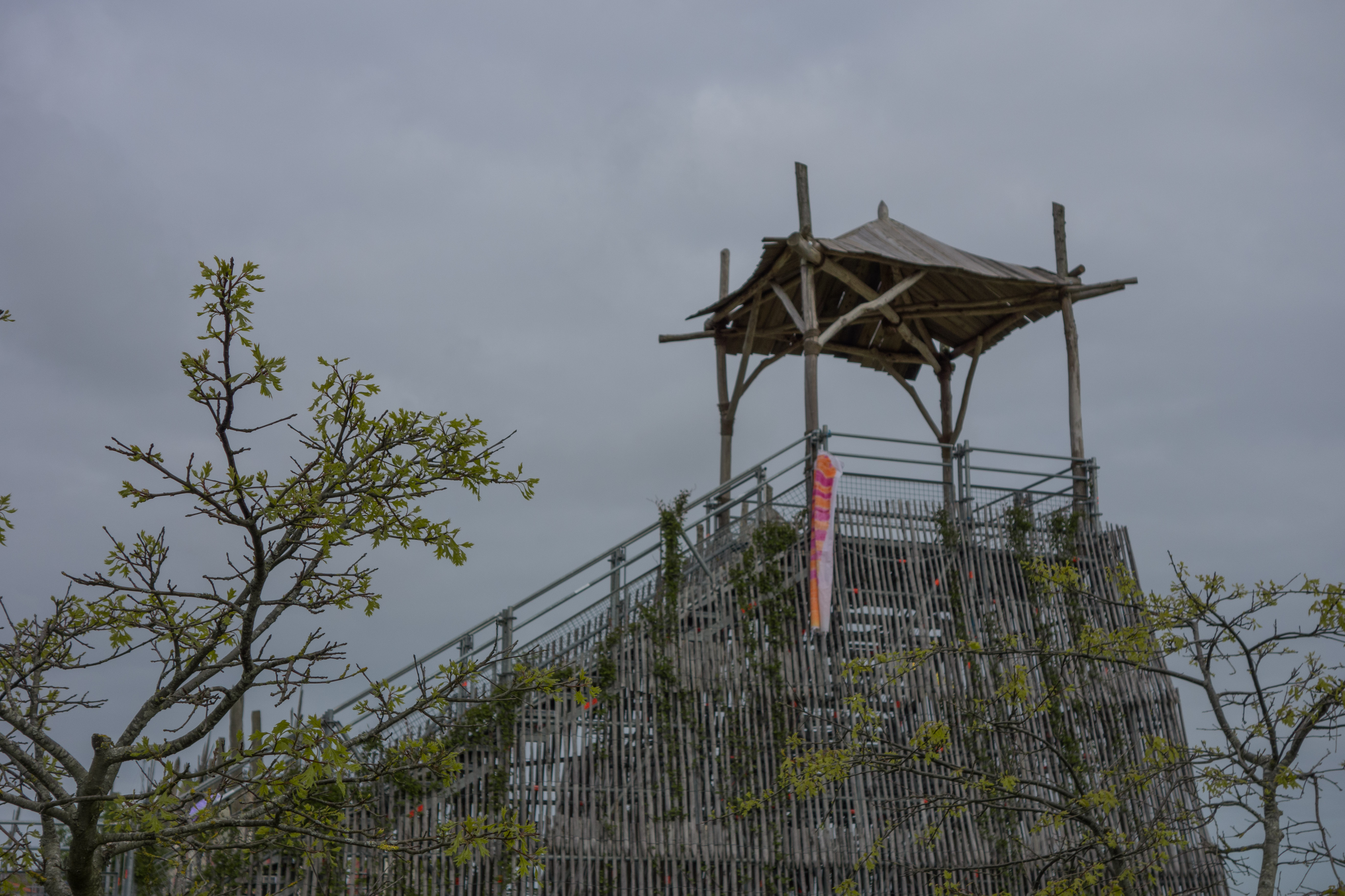 Jardin dessiné par Kinya Maruyama, à partir de la constellation de la Grande Ourse et des quatre points cardinaux, où l’on peut déambuler, grimper et se reposer.